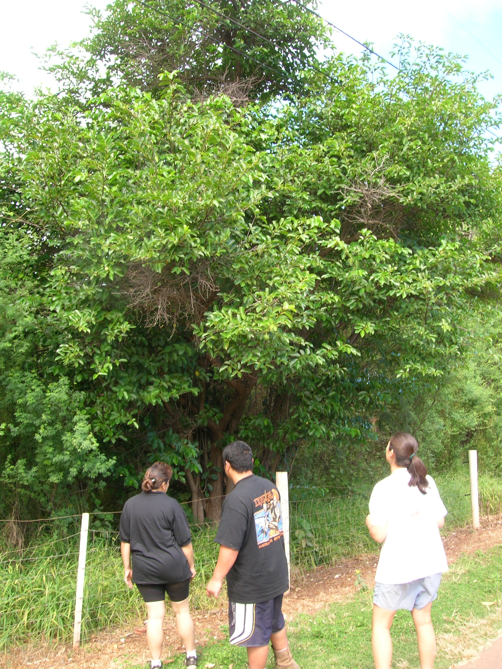 Annona glabra (habit and Momisc tour). Location: Molokai, Kalanianaole Colony